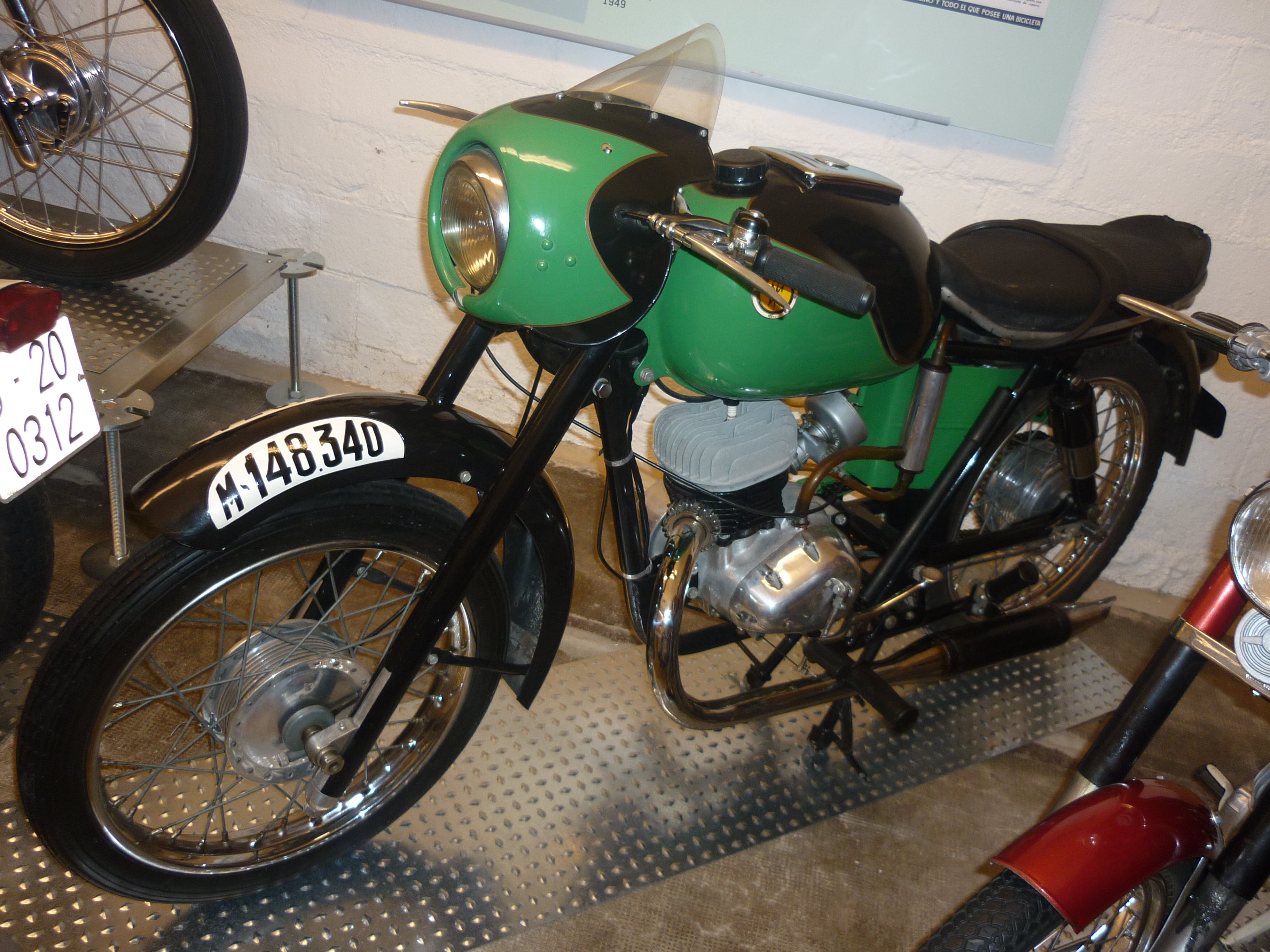 Edeta Sport 125cc (1956).Museu de la Moto de Barcelona (Catalonia).